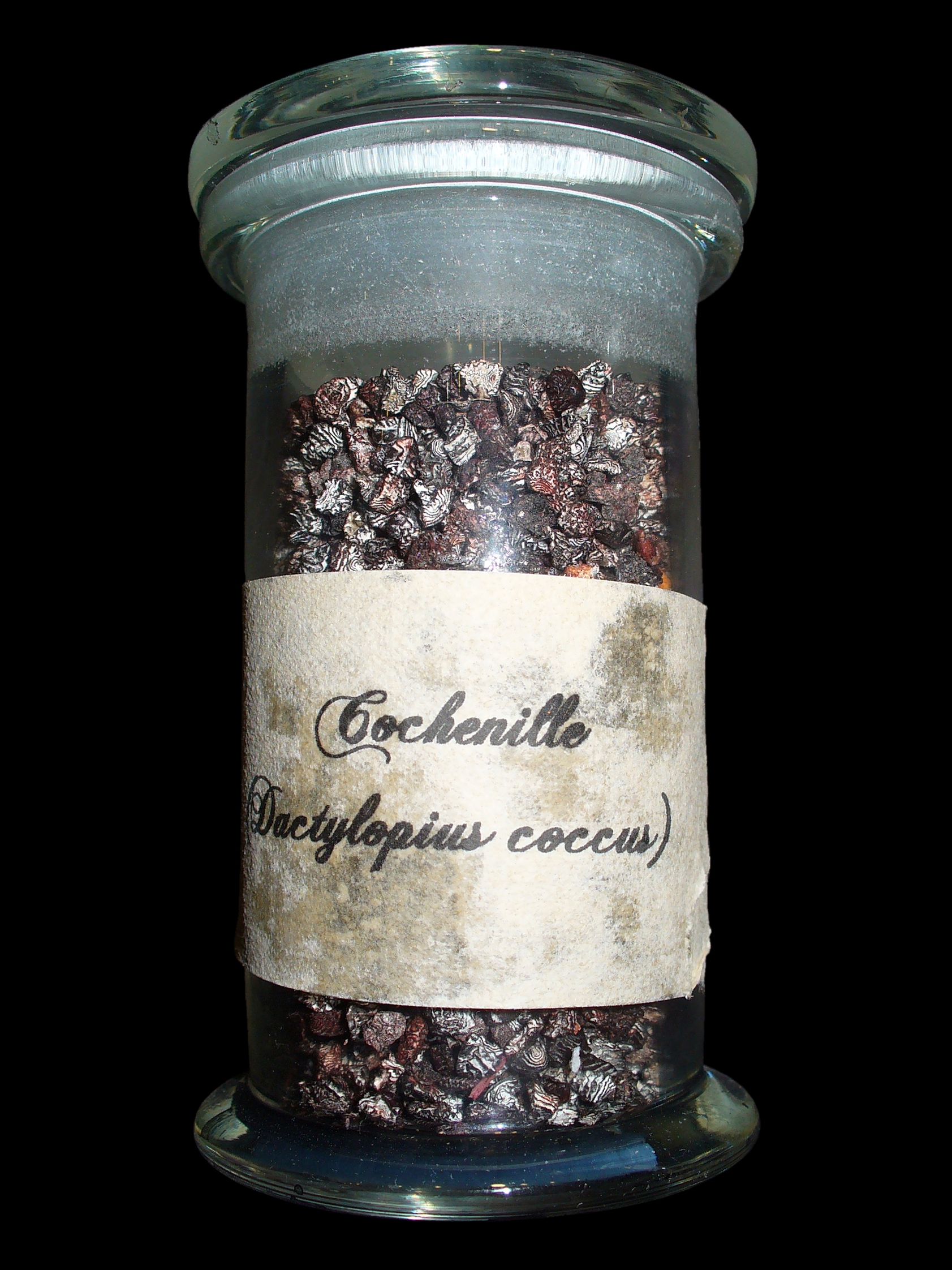 Dactylopius coccus, Dactylopiidae, Cochineal, Fertilized, dried females; Staatliches Museum für Naturkunde Karlsruhe, Germany. Used in homeopathy as remedy: Coccus cacti (Coc-c.)